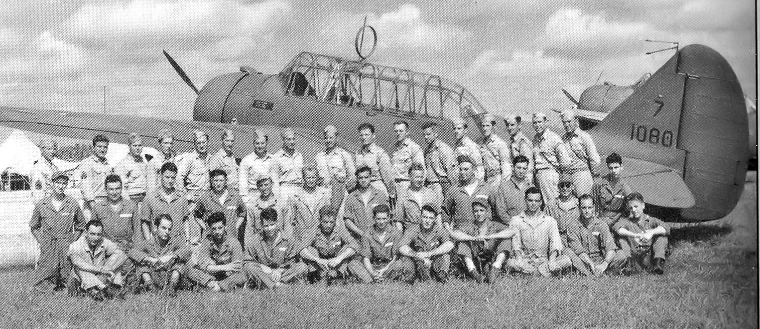 08th Observation Squadron - North American O-47B 39-108-07 with maintenance crew at Howard Field, Panama, 1943